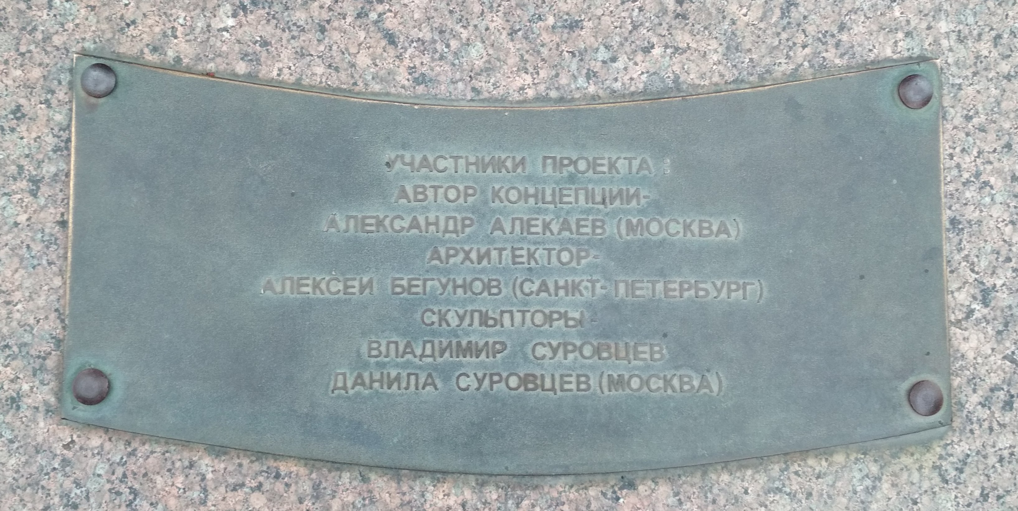 A sign indicating the project participants installed on the monument to General Markov. City Salsk Rostov region.